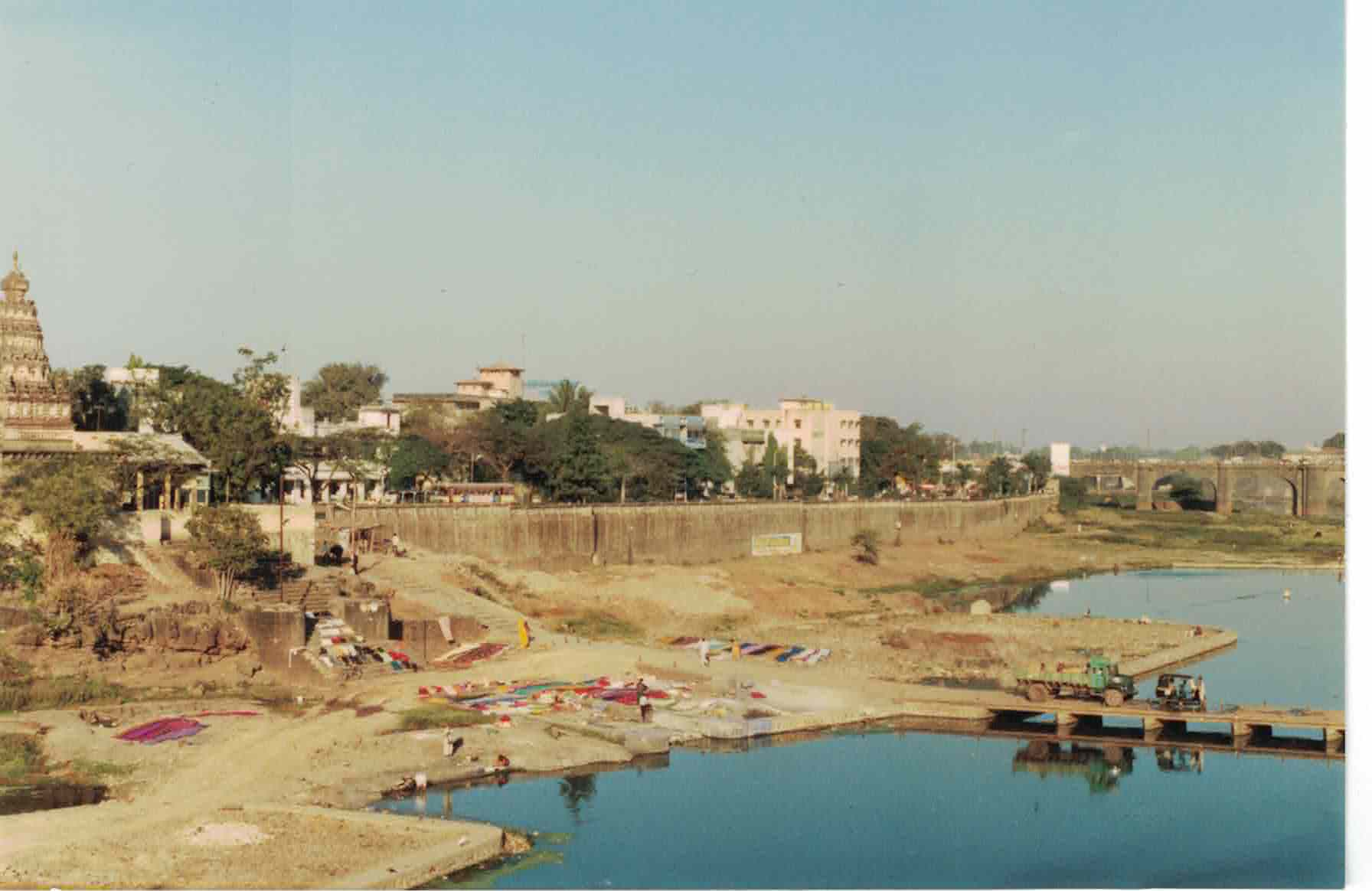 Mutha river near Onkareshwar temple in 1986